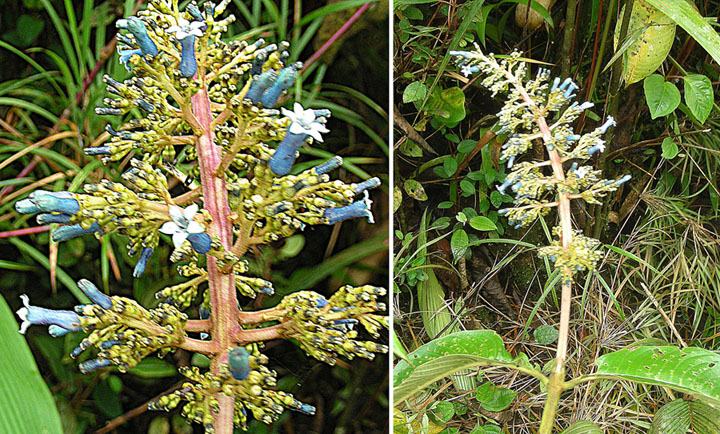 Found in mountains from Colombia to Bolivia. Photo from the Condor Range, Peru-Bolvia border. In context at